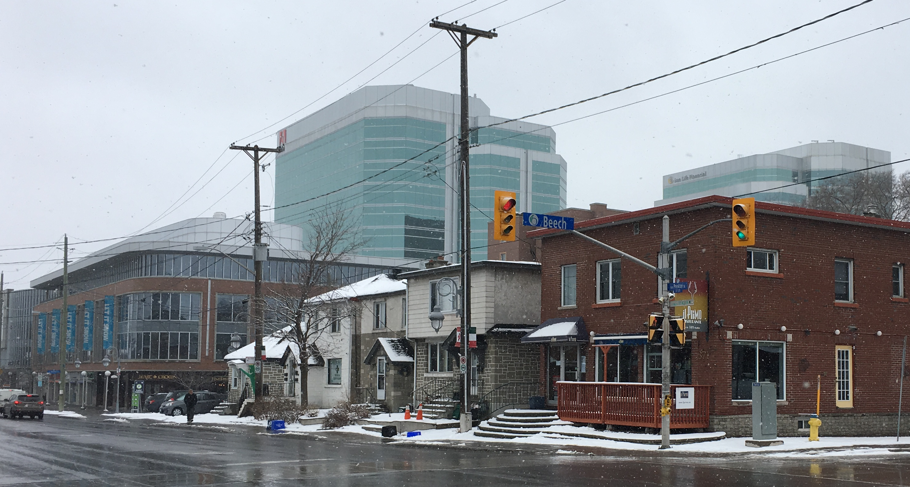 Ottawa Canada